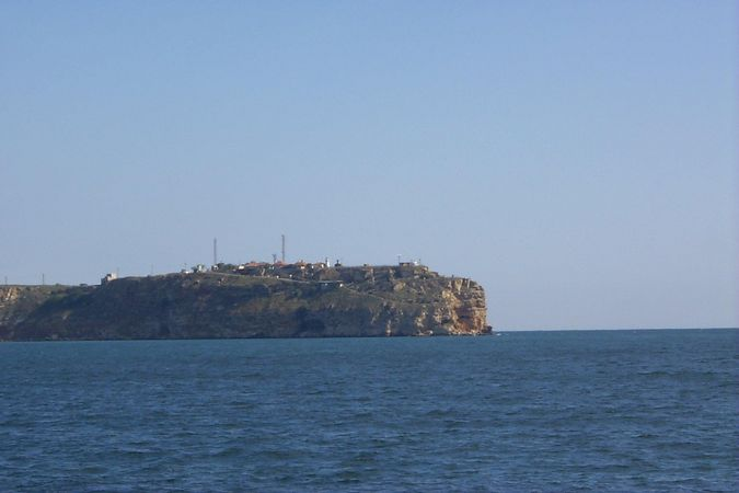 Kaliakra horn on the Bulgarian Black Sea coast